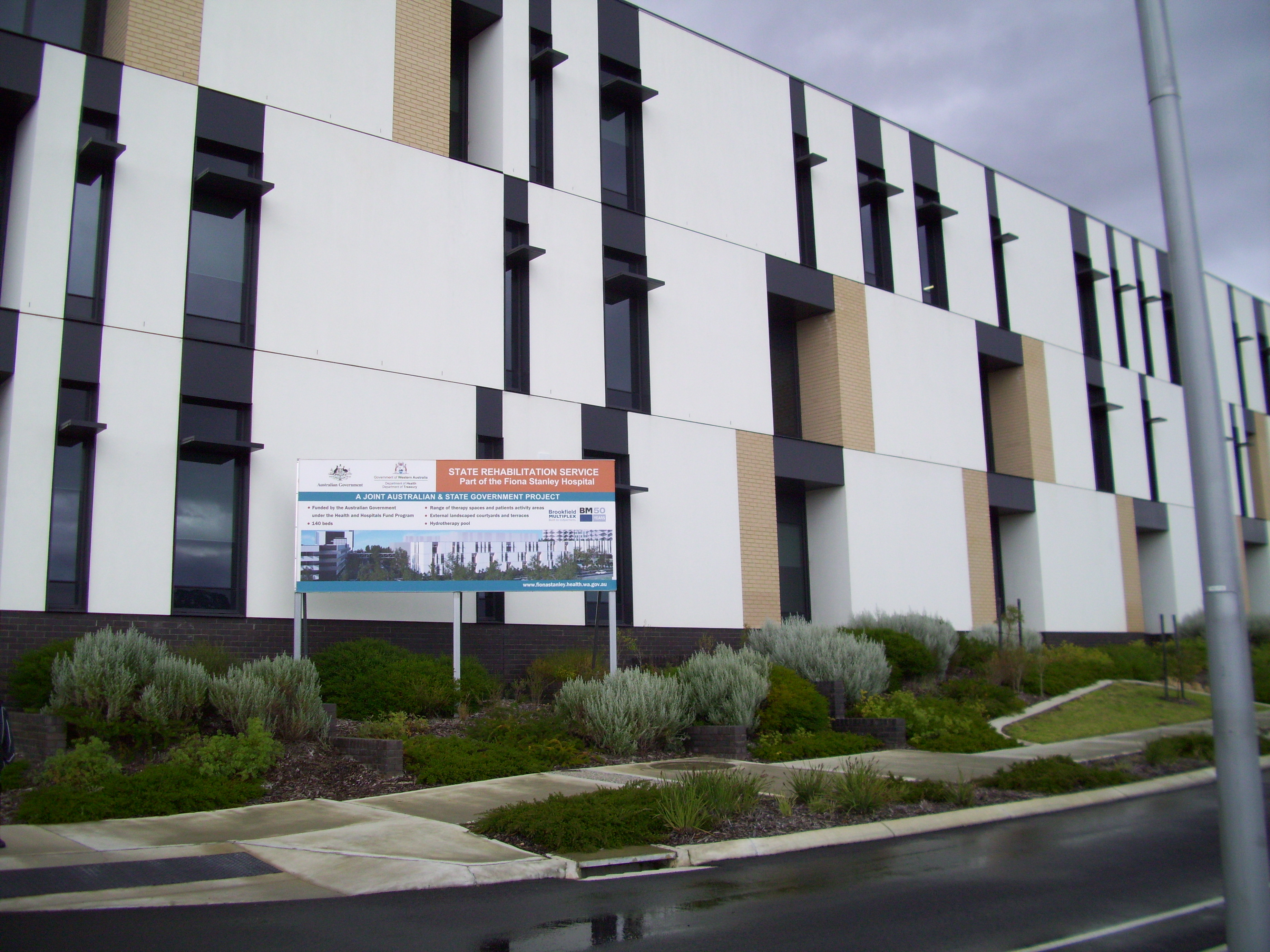 Fiona Stanley Hospital, October 2014. Exterior of State Rehabilitation Service - jointly funded by state and federal governments.